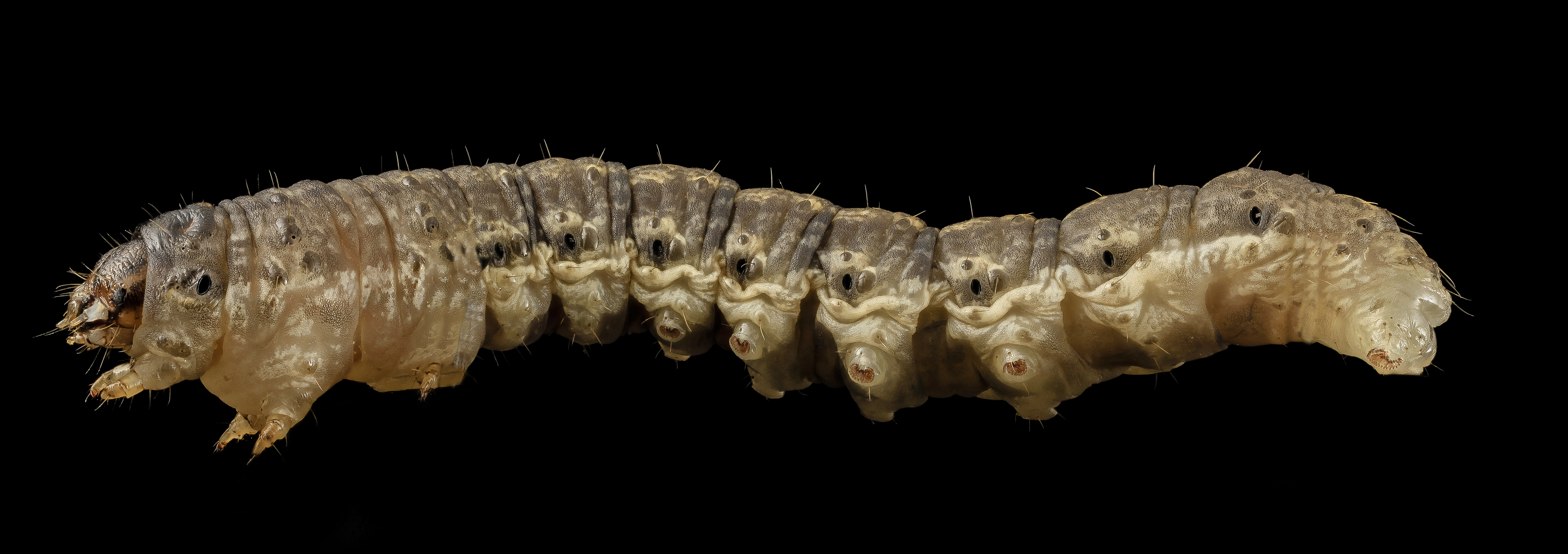 Caterpillar of Agrotis ipsilon (Black Cutworm). An major crop pest. This species moves into northern parts of North America after overwintering in Texas and Mexico and then pulls off a couple of generations in weedy fields and particularly impacting newly planted corn.